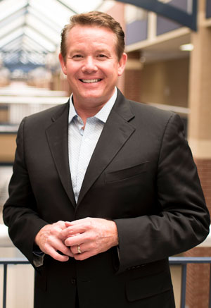 Steve Spangler Headshot